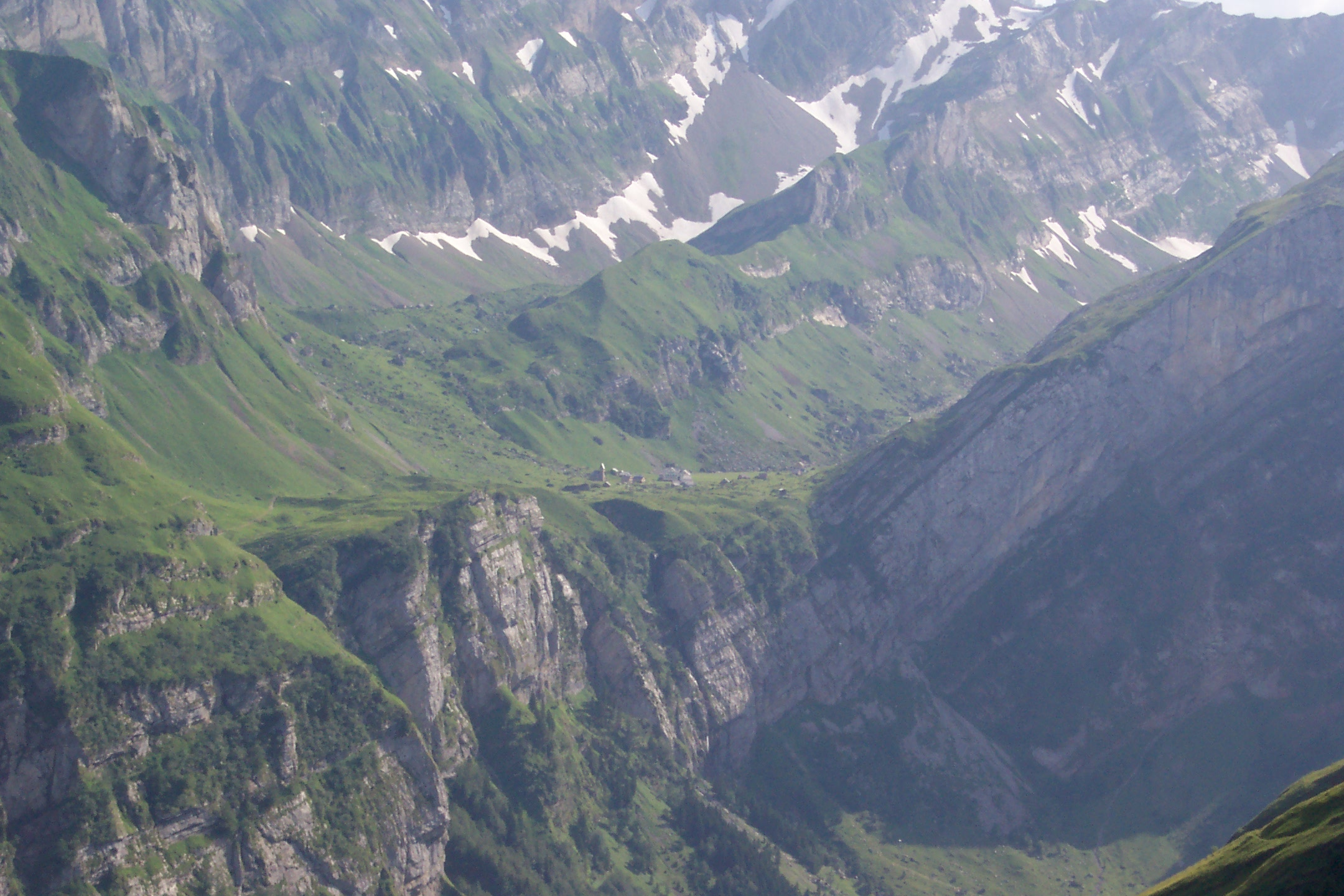 The little mountain village Meglisalp in the Swiss canton Appenzell. This picture was taken from the Top of the Ebenalp in July 2006.